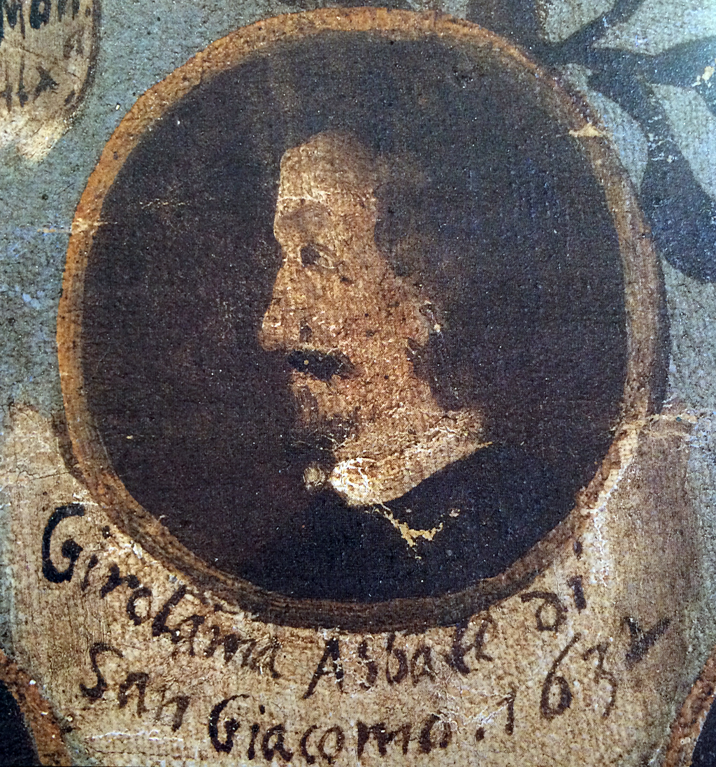 Girolamo Ghilini (1598–1668) Description italian historian and priestDate of birth/death 19 May 1598 1668Location of birth/death Monza AlessandriaAuthority control : Q22789845 VIAF: 352747 ISNI: 0000 0000 6122 0606 LCCN: nr97044159 GND: 100285481 BNF: 10435764v WorldCat creator QS:P170,Q22789845